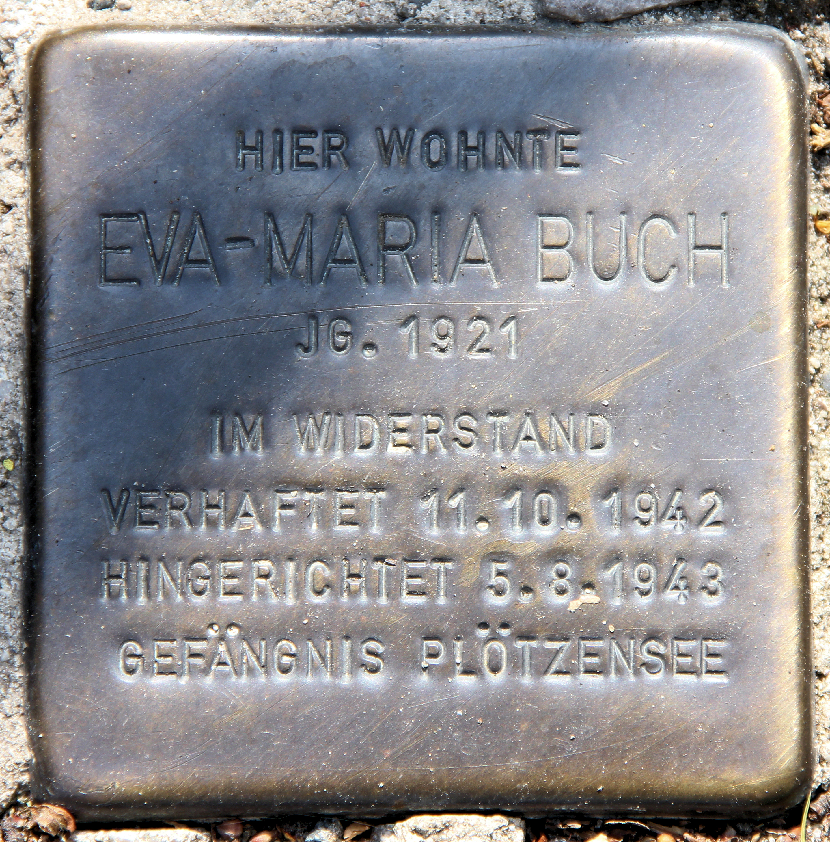 "Stolperstein" (stumbling block), Eva-Maria Buch, Hochfeilerweg 23a, Berlin-Mariendorf, Germany Koordinate:52°25′40″N 13°23′46″E / 52.42778°N 13.39611°E